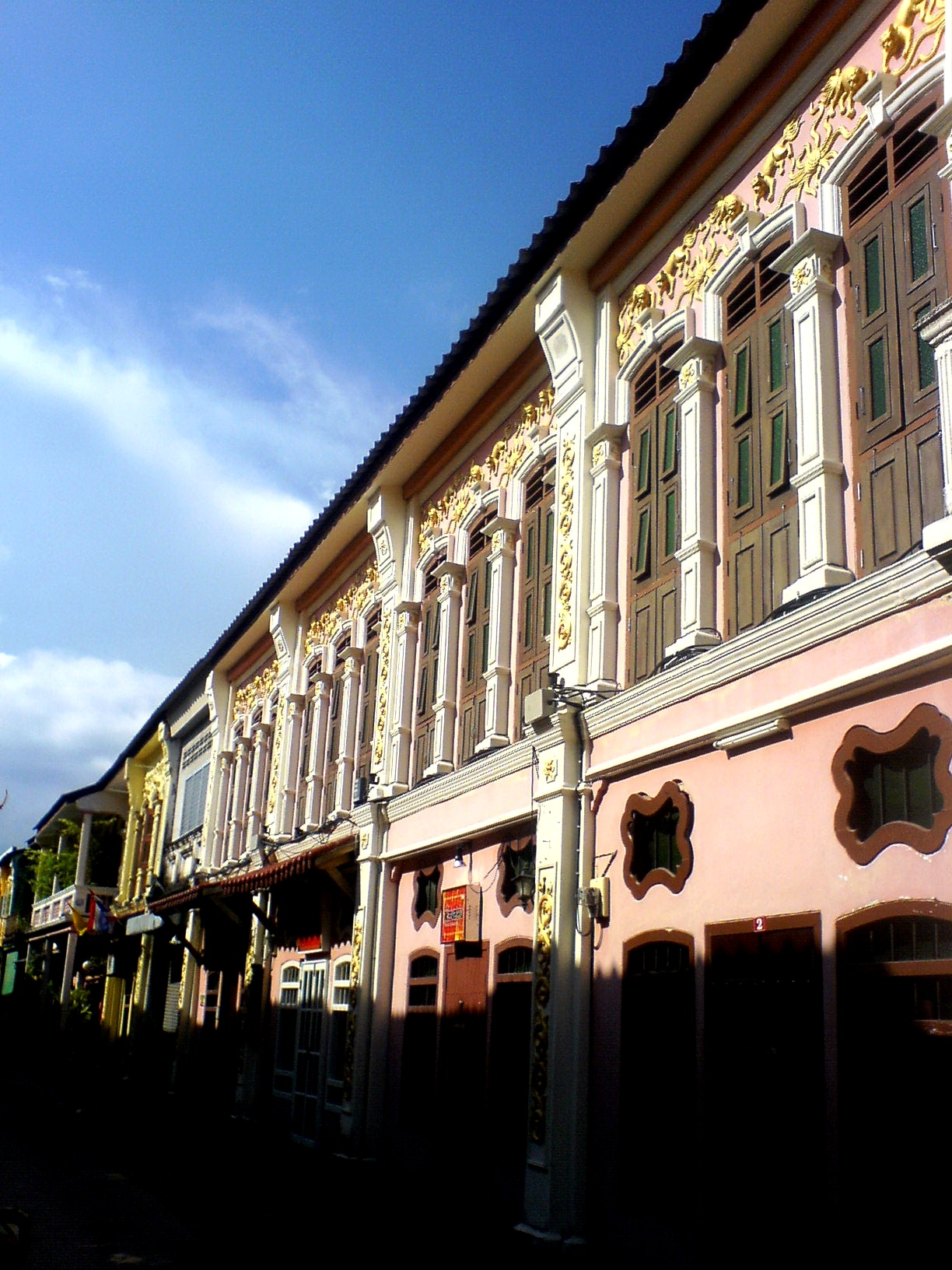 Shophouses sino-portugese architecture, Soi Romani, Thalang Road, Mueang Phuket